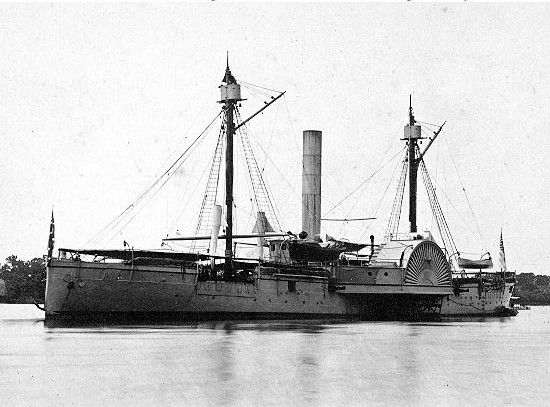 From U.S. Navy public domain Photo #: NH 57252 USS Agawam (1864-1867) In the James River, Virginia, July 1864.